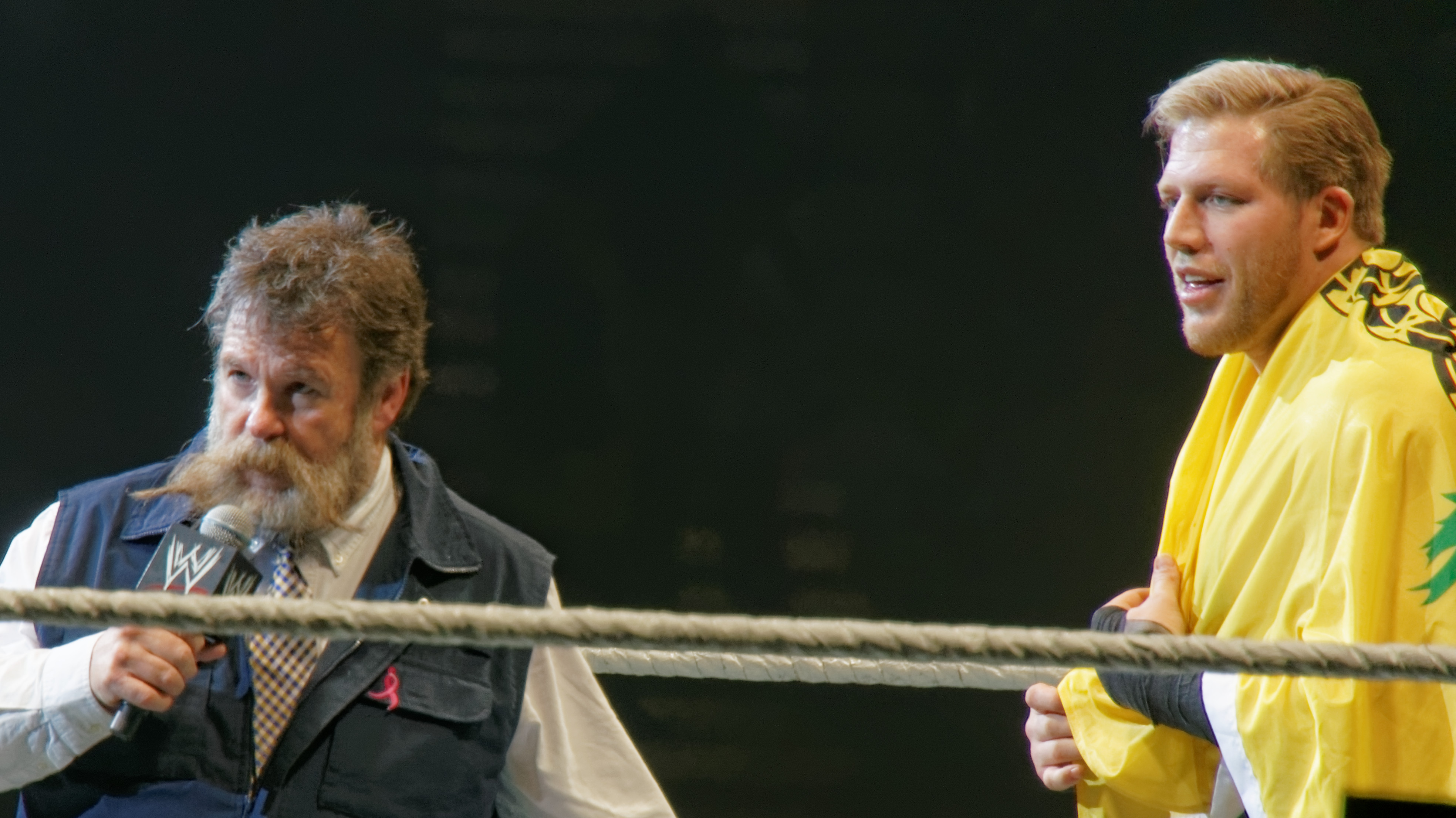 Jack Swagger (aka Jacob Hager) with his manager Zeb Colter (aka Dutch Mantel) in November 2013.